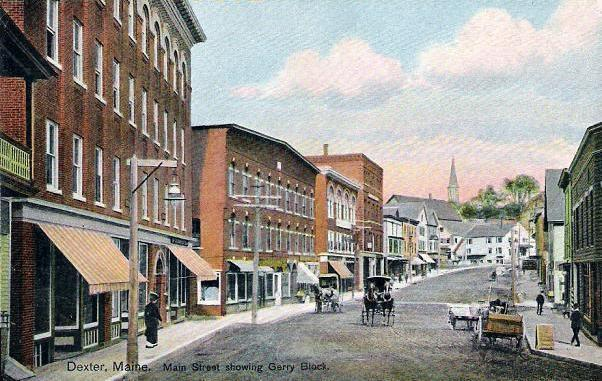 Main Street, showing Gerry Block, Dexter, ME.